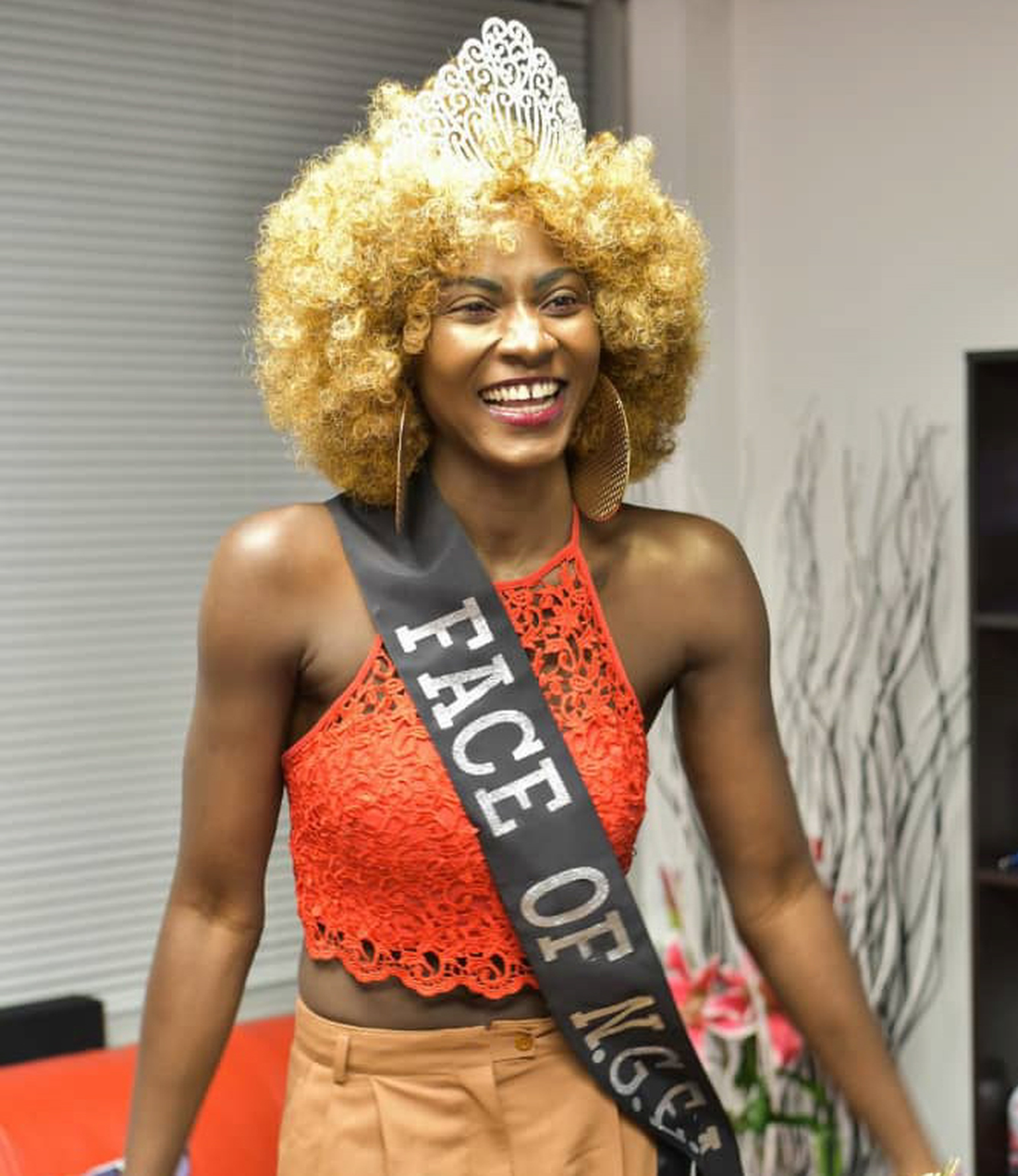 A picture of Mary Timms